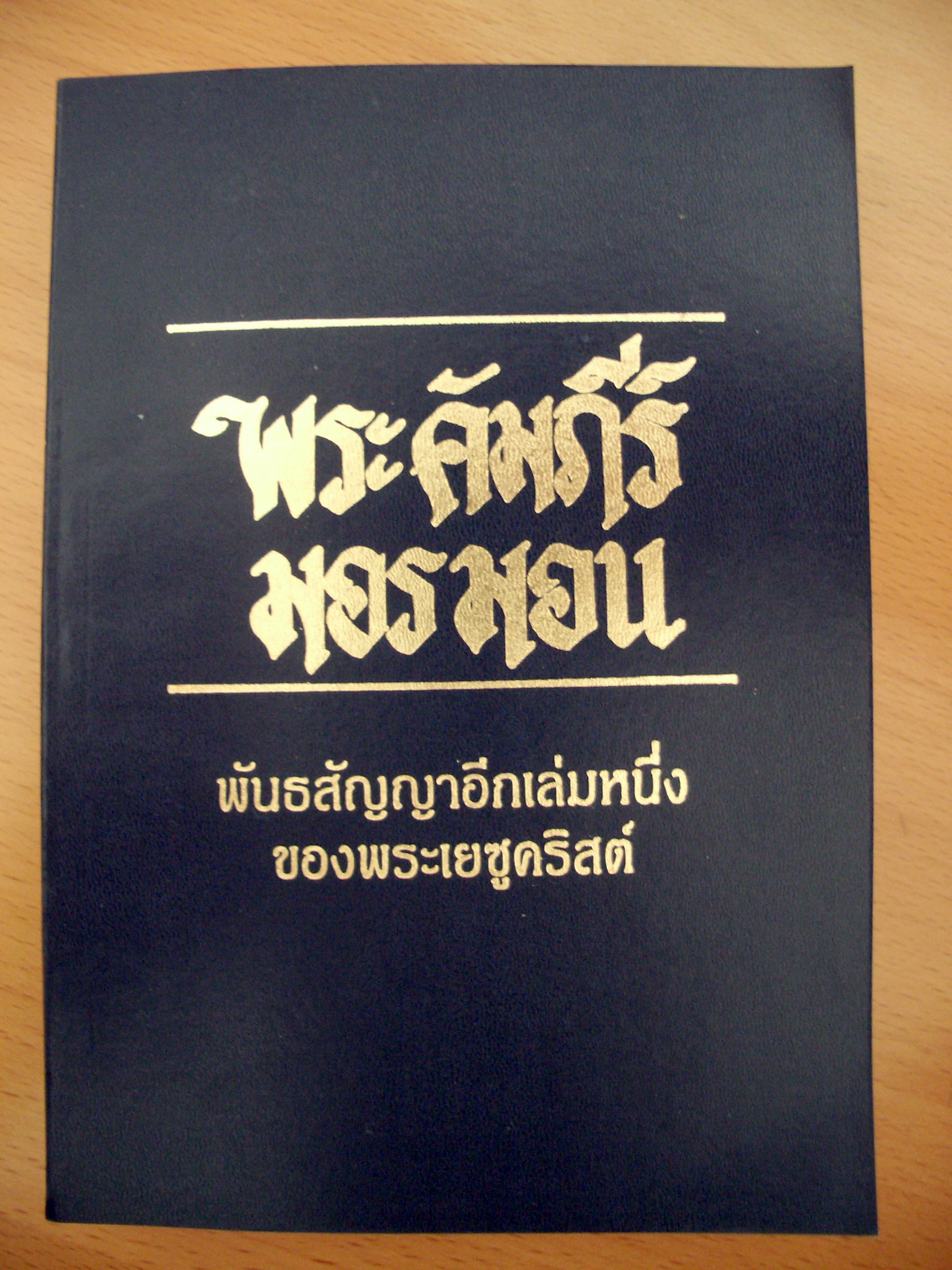 Cover of a Thai translation of the Book of Mormon, published by The Church of Jesus Christ of Latter-day Saints.